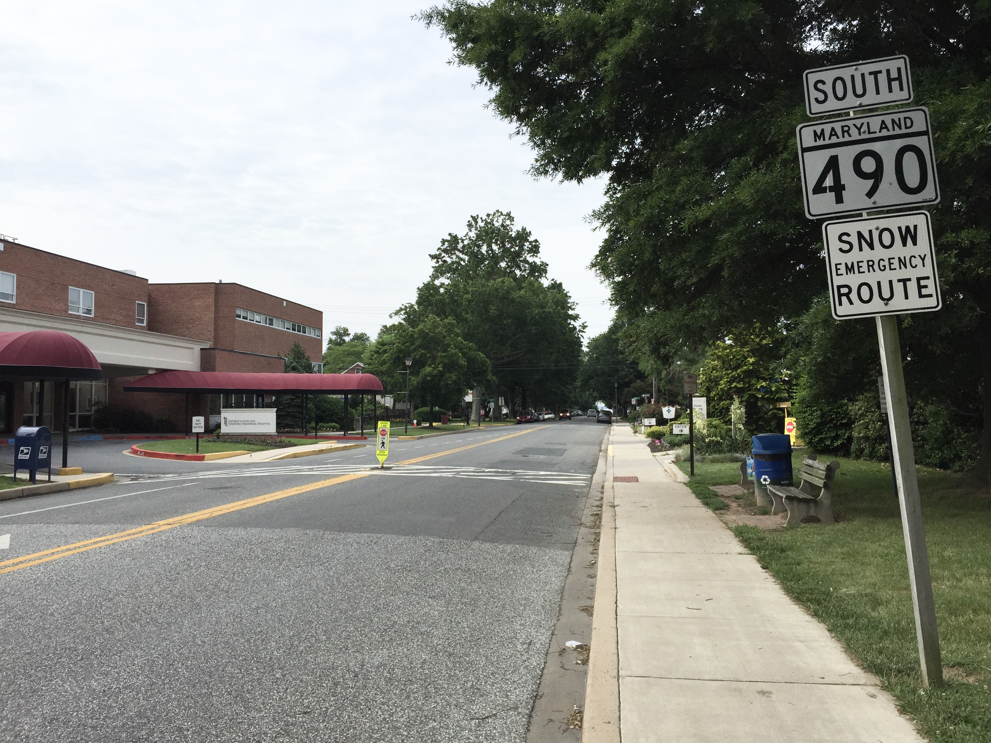 View south from the north end of Maryland State Route 490 (Union Avenue) in Havre de Grace, Harford County, Maryland